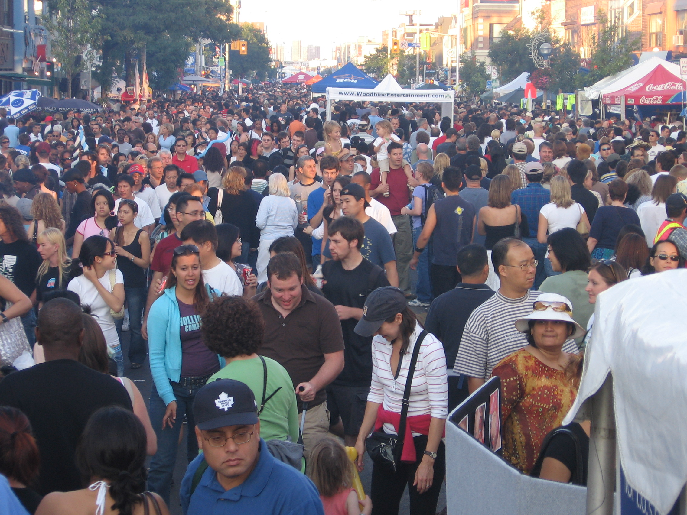 Taste of the Danforth in 2006